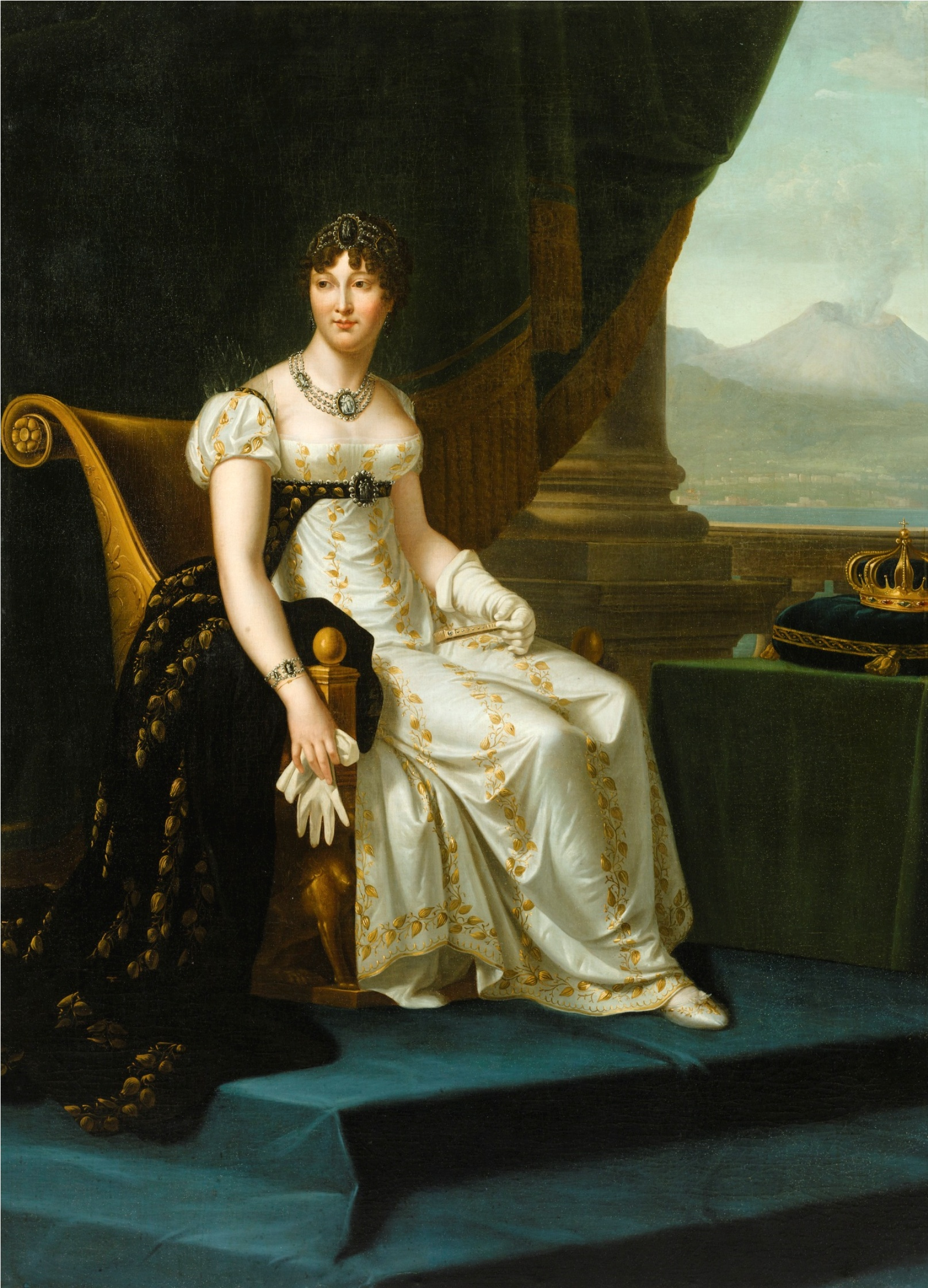 The picture is probably painted between 1810 and 1812. This portrait depicts Queen Caroline Bonaparte sitting, the royal crown resting beside her on a velvet cushion. A rich drapery and a monumental column, in the pure classical tradition of portraits, occupy the background that opens onto the bay of Naples and the smoking Vesuvius. She is dressed in antique style and wears a sumptuous Grand Habit of Court in embroidered silk and an ornament composed of a tiara, necklace, bracelet, earrings and clasp. The painting has always been considered by the owners' family as a work executed by Baron Gérard and his workshop.